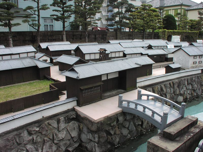 Small-scale version of the Island of Dejima